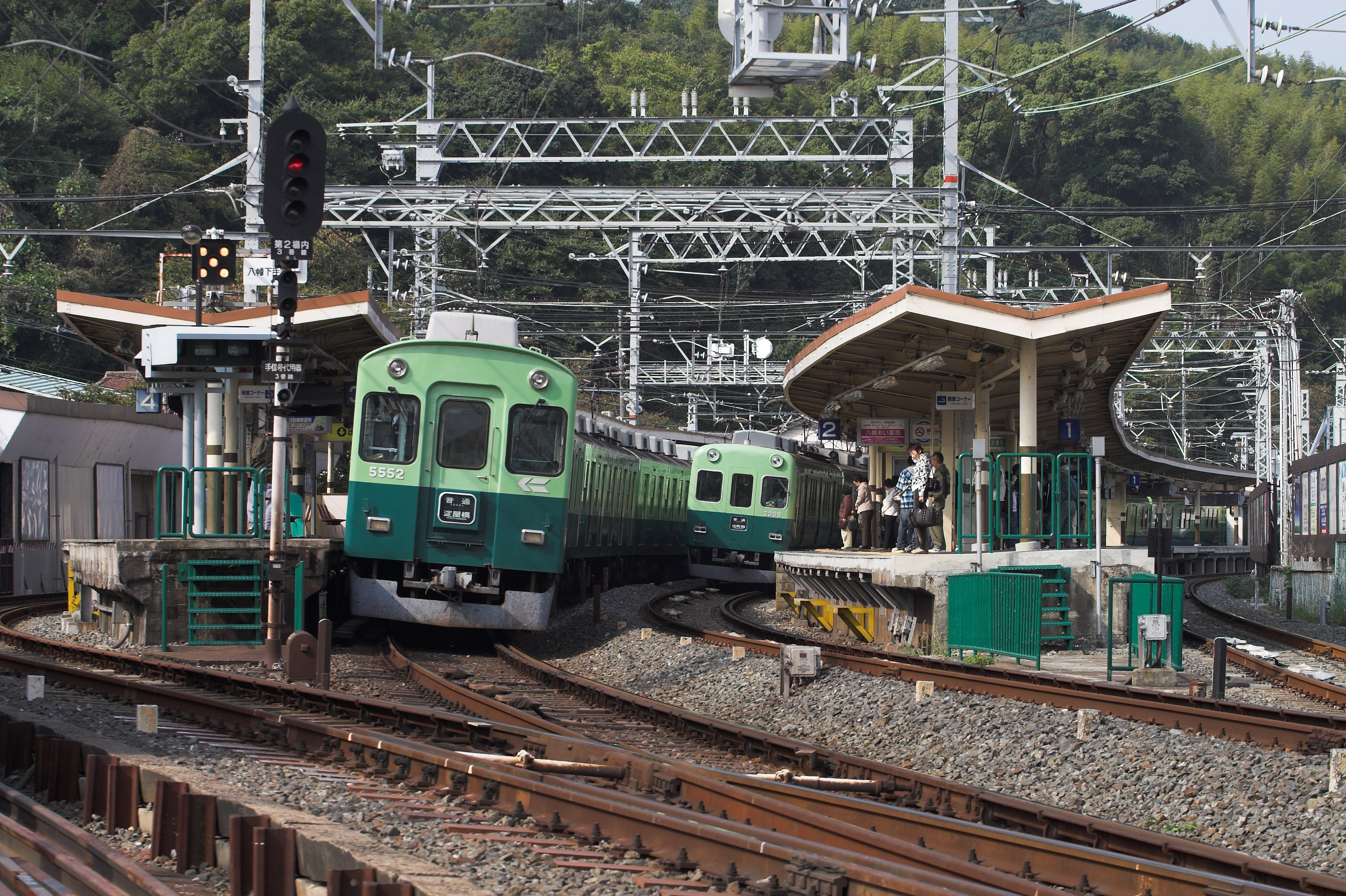 京阪電鉄八幡市駅/Yawatashi Station of Keihan Electric Railway Company